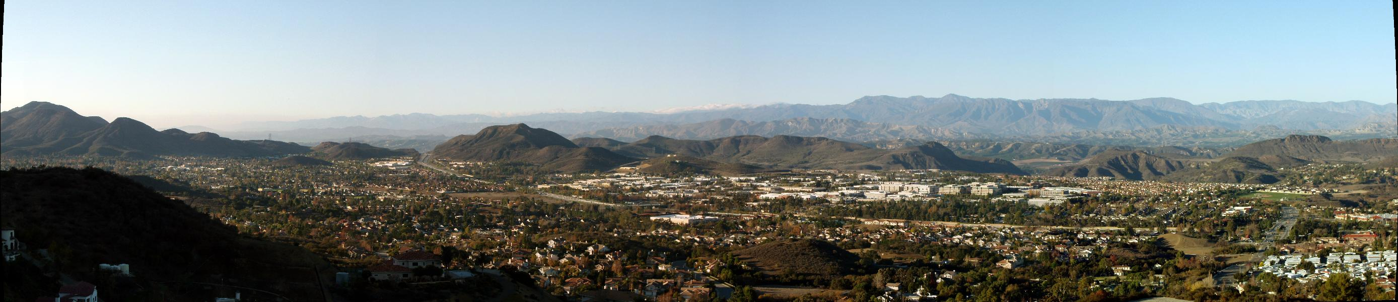 A panorama of the Newbury Park area, taken from South Ventu Park Rd in Newbury Park, facing North-East. The Topatopa Mountains are in the distant backround.(34.166987,-118.910508).